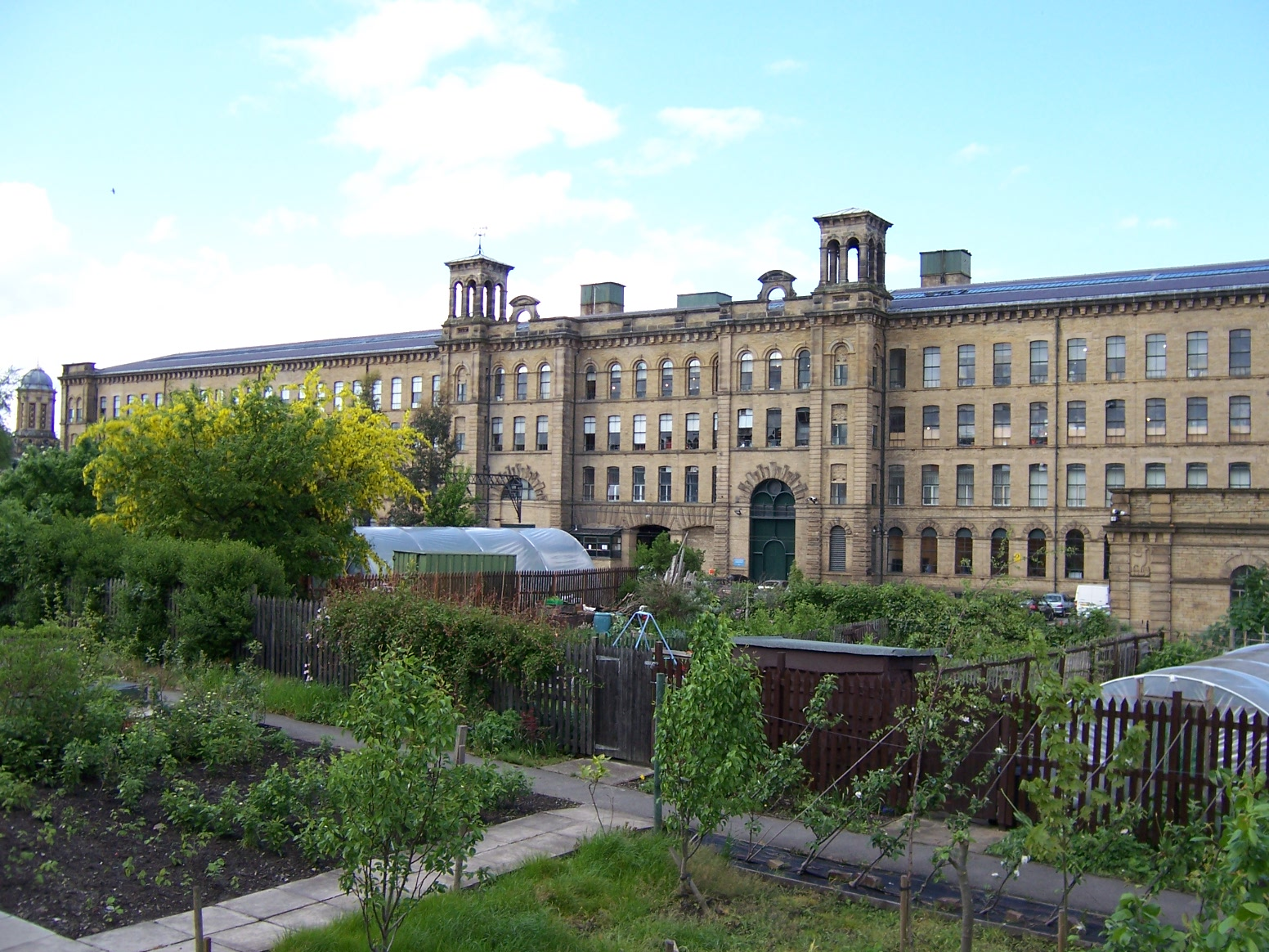 Salts Mill (1853) in Saltaire, West Yorkshire (England) own work; photo taken on 23 May 2006